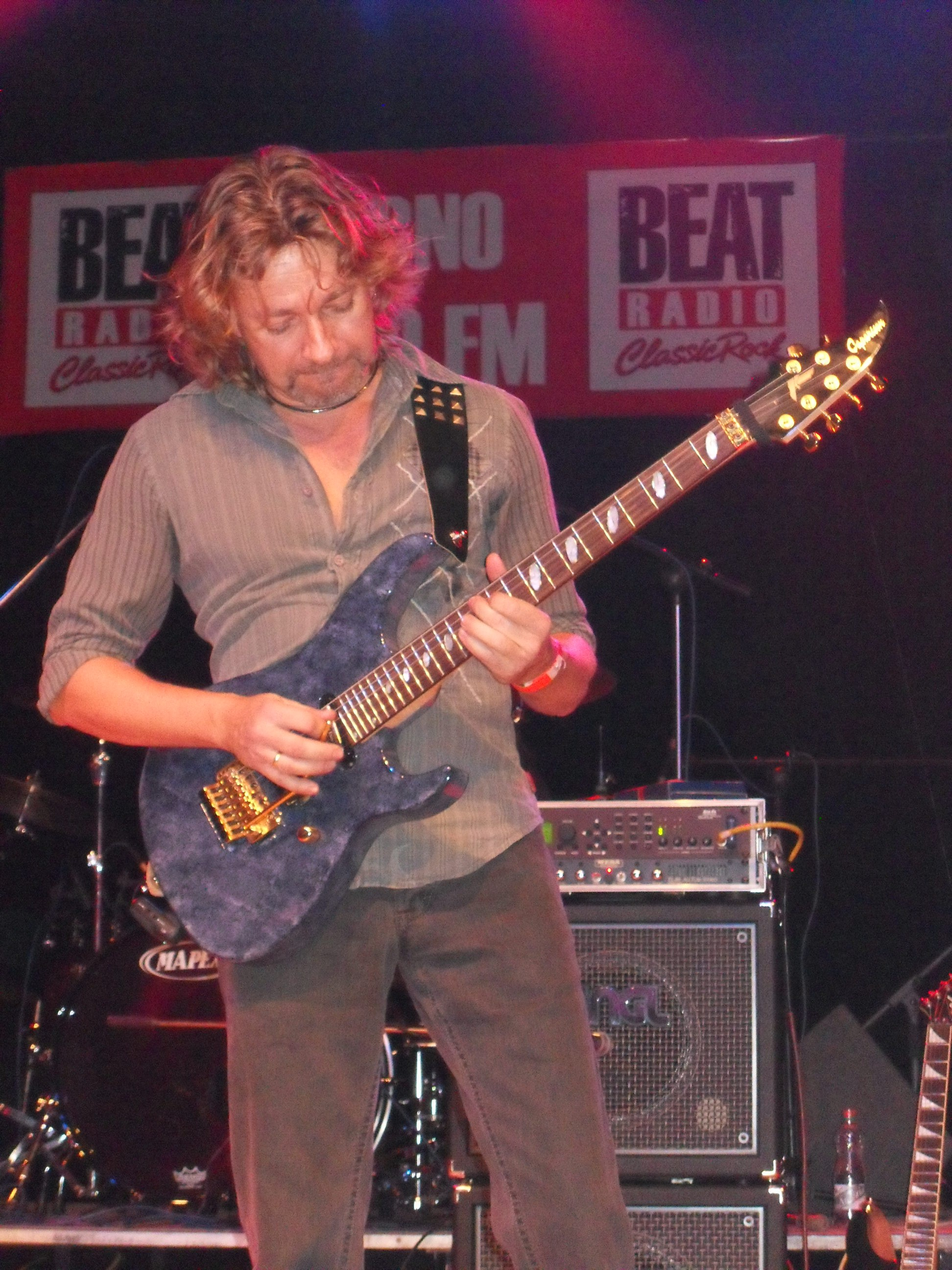 Guitarist Michal Pospíšil of Czech band Bronz, Brno, Czech Republic